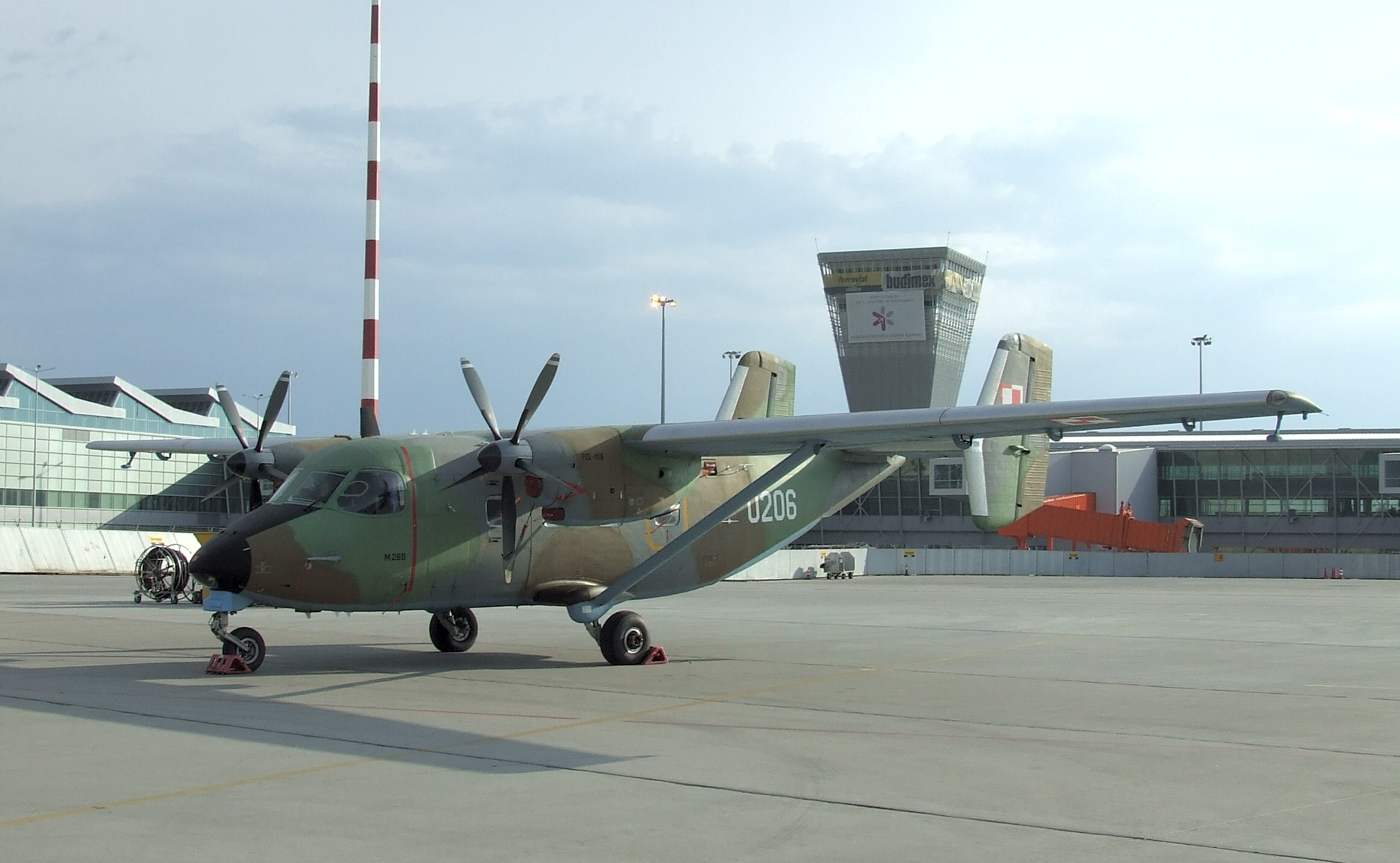 PZL M-28B of the Polish Air Force at Warszawa Okęcie Airport